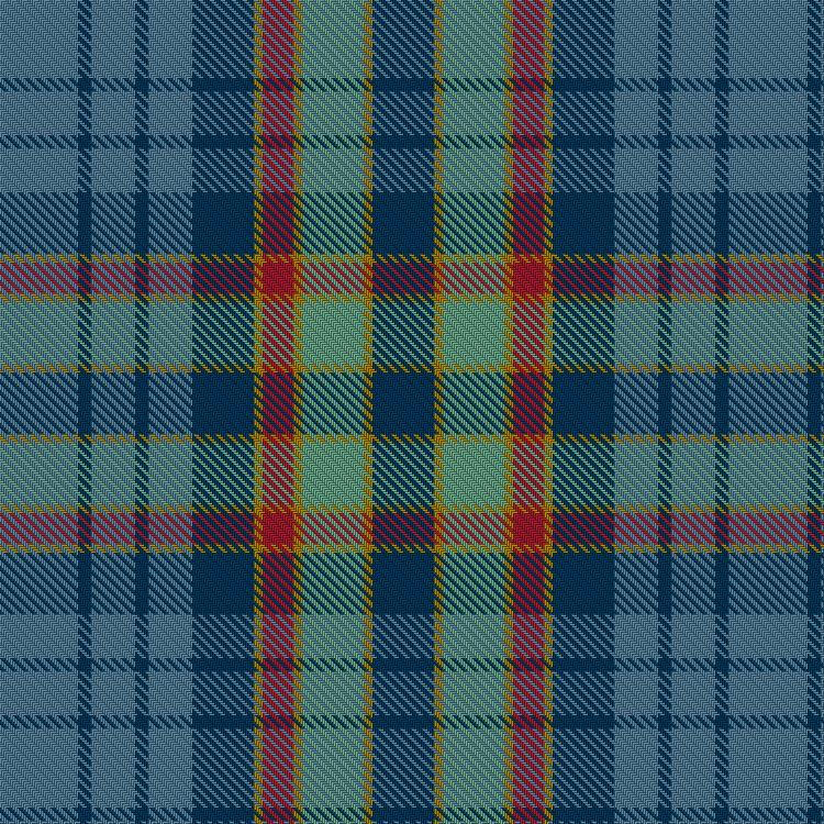 Designed by Robin Elliot and Alison Ralston for all of the name and its variants. Colours reflect the coat of arms and the Scots-Irish connection between Tyrone, Donegal and Renfrewshire. Woven sample.